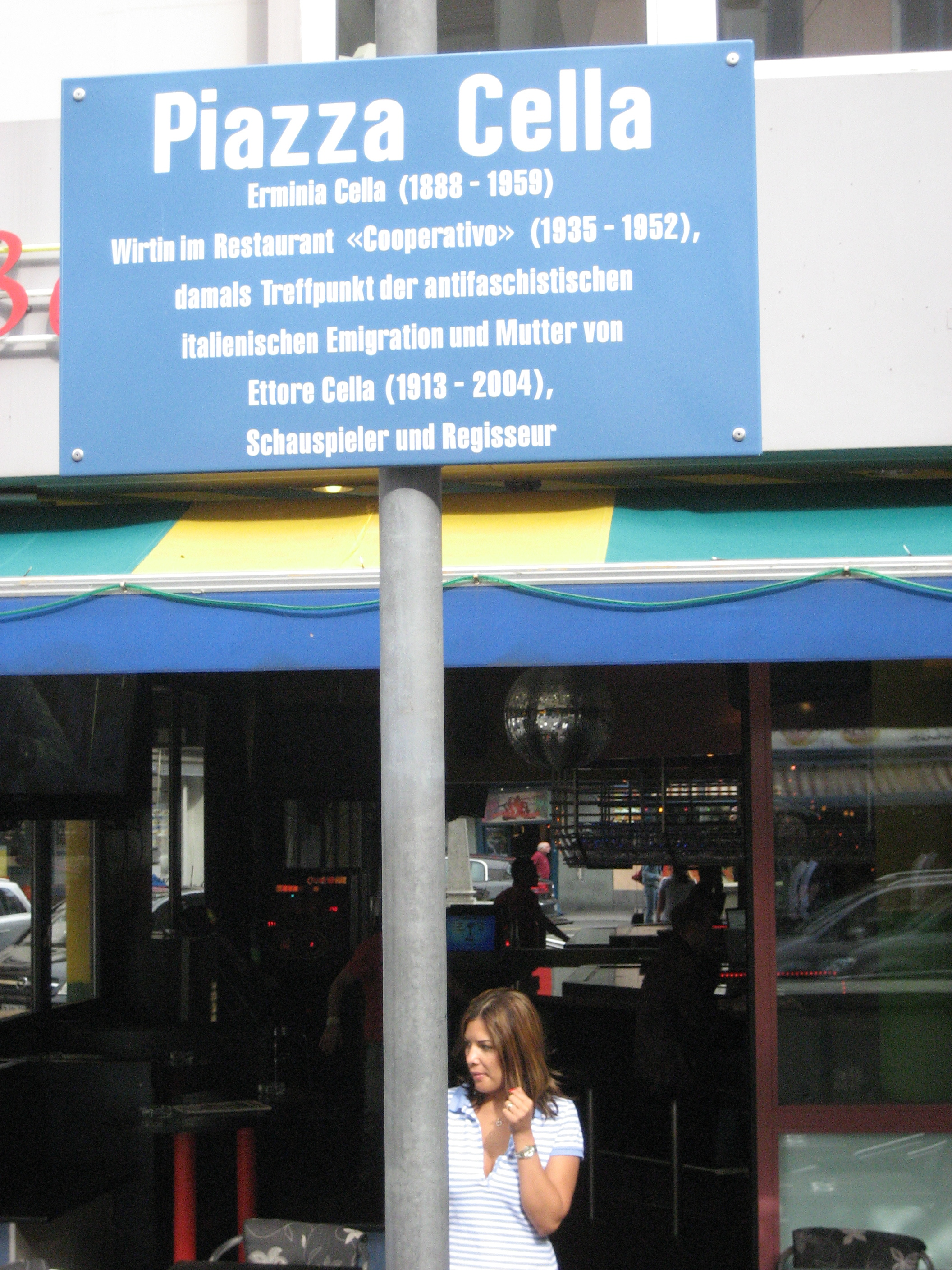 Piazza Cella, Langstrasse, Zurich, Switzerland